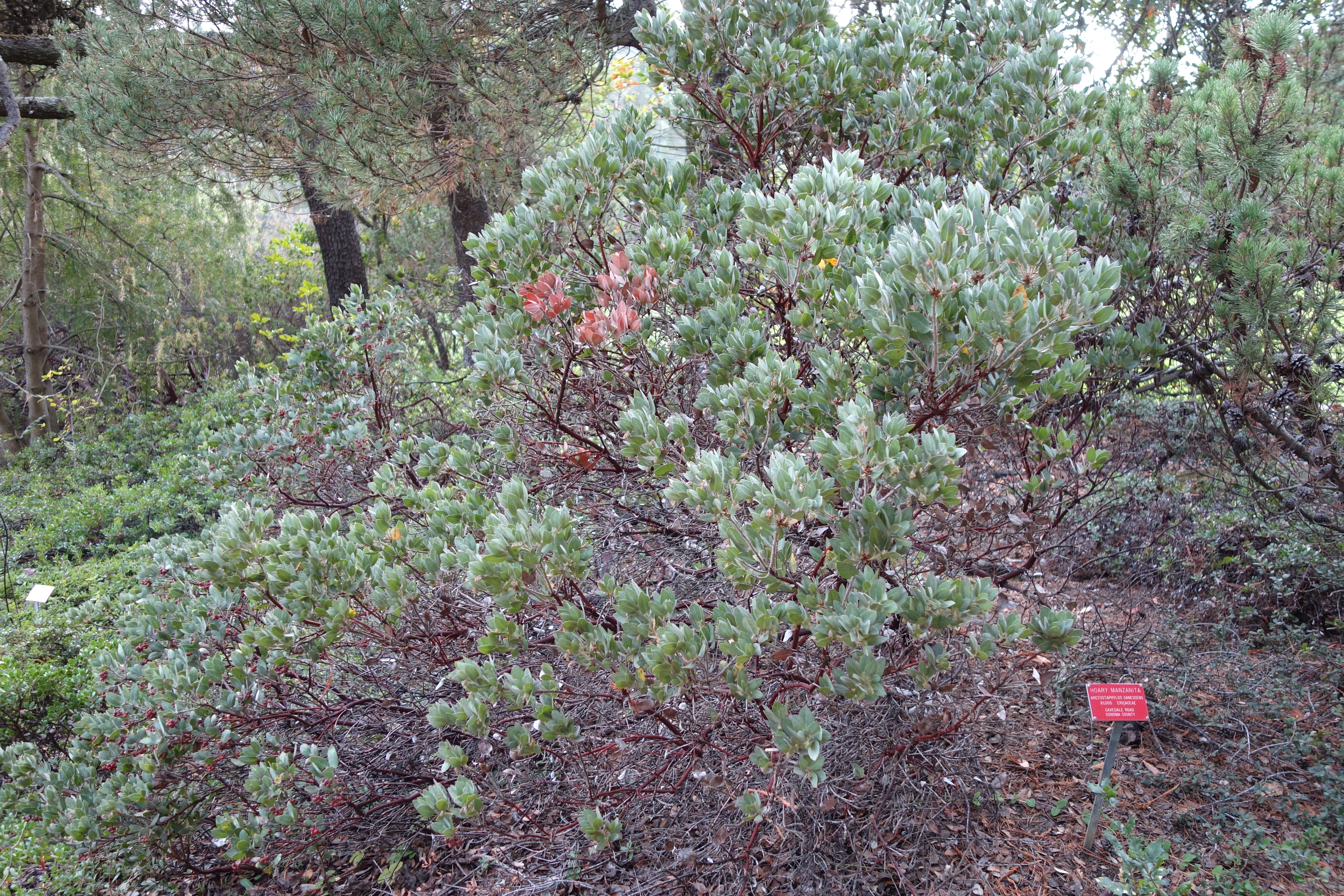 Botanical specimen in the Regional Parks Botanic Garden, Berkeley, California, USA.